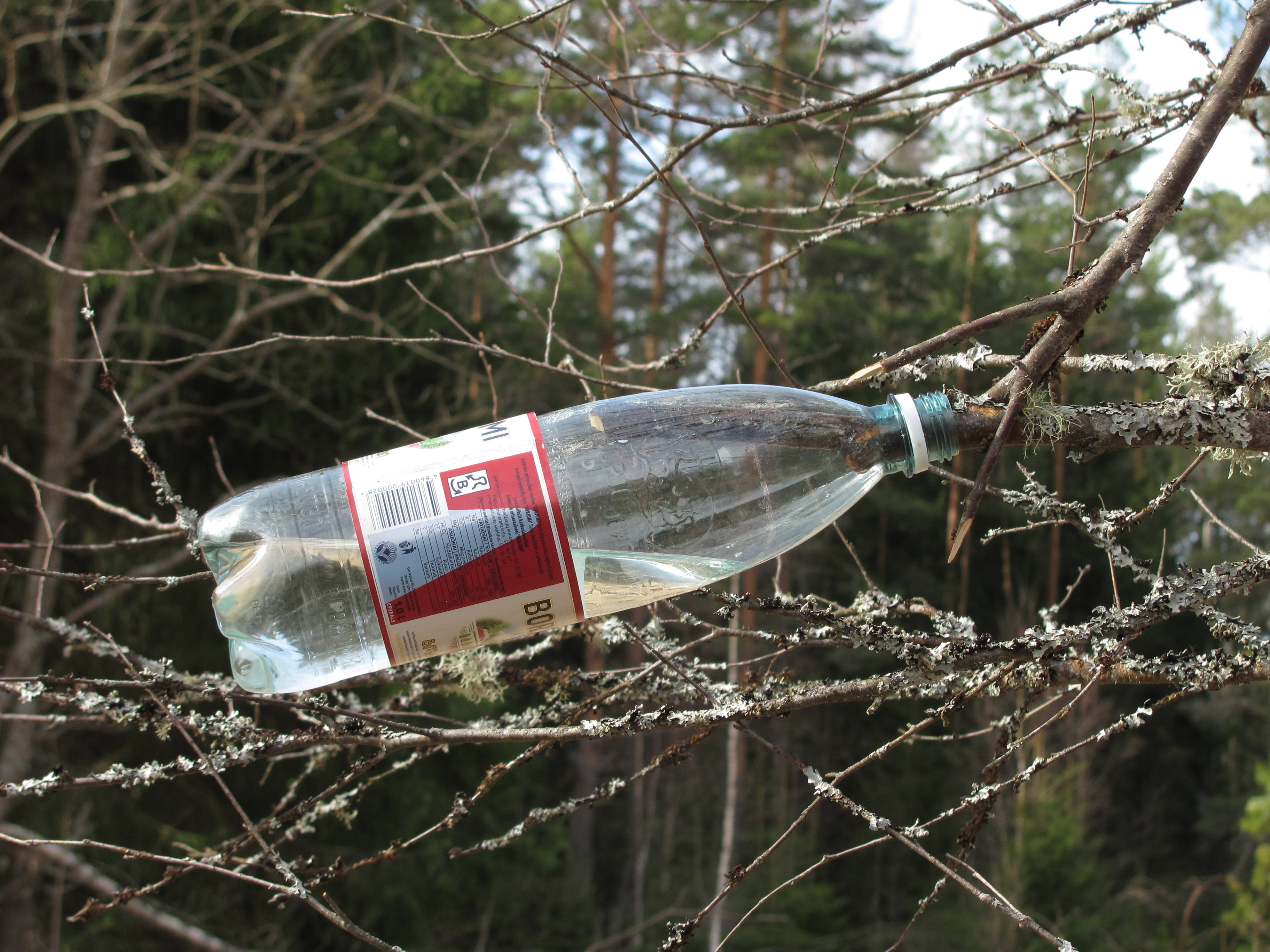 Collecting birch sap by attaching a bottle to a branch. Pictured in Estonia in mid-April.